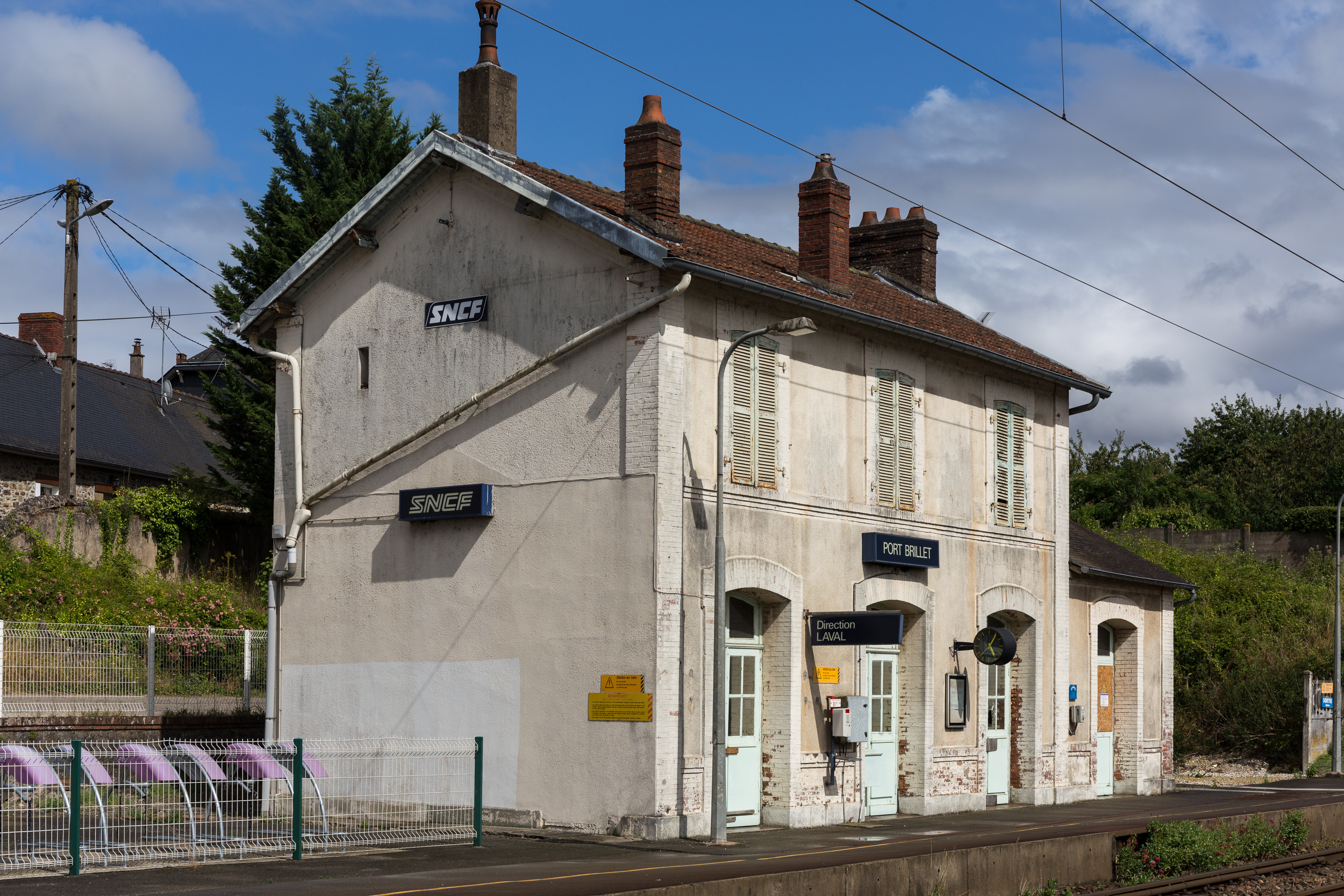 Train station of Port-Brillet.